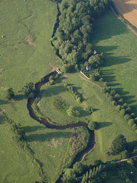 Columbjohn from the air The River Culm meanders past St John's chapel, built in about 1844. Seen from a hot air balloon.